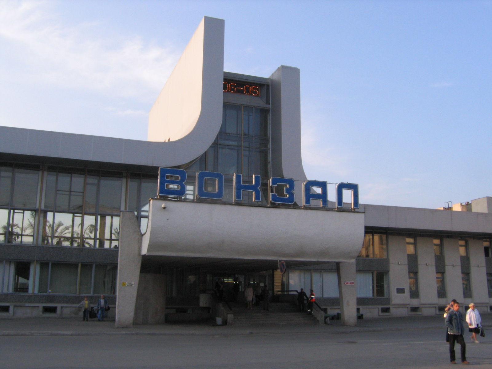 Zlatoust railway station, Zlatoust, Russia